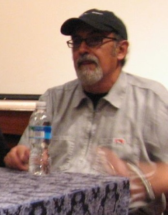 The painter and print-maker Enrique Chagoya during the Politics in Art symposium in Philadelphia, Pennsylvania.